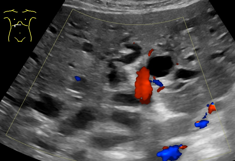 editAn 86 year old man with known pancreatic cancer (presumably adenocarcinoma), seen incidentally on CT 2 months prior, then measuring 3 cm. The patient now presents with hyperbilirubinemia. Abdominal ultrasonography with Doppler shows the following: The cancer in the pancreatic head is seen as hypoechoic, and has grown to 4.5 cm. A dilated pancreatic duct is seen to the right of it. Image of the dilated pancreatic duct in the body of the pancreas. It is colorless (black) in contrast to blood vessels (splenic vein closest below, and superior mesenteric artery at bottom)) which have Doppler signal. Also dilated intrahepatic bile ducts. They are colorless (black) in contrast to blood vessels (portal vein near center, and hepatic artery to the right of it) which have Doppler signal.